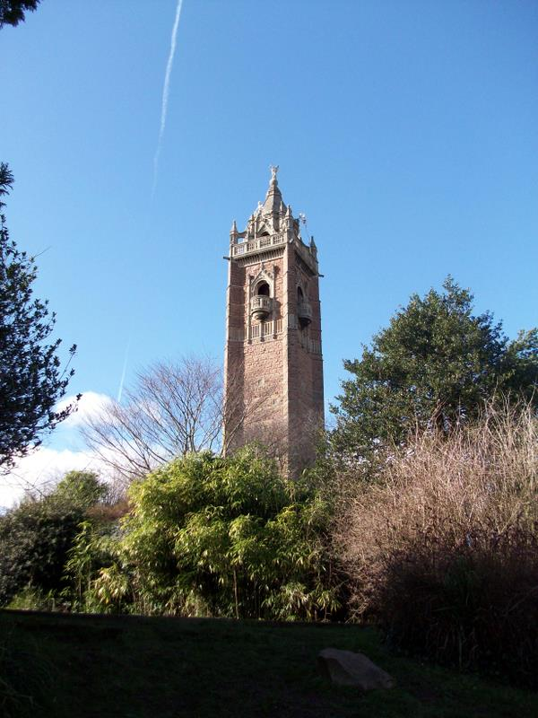 Cabot Tower, Bristol, England